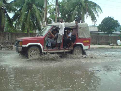 Water logging at Lalganesh during floods.